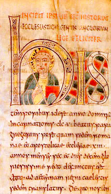 The Saint Petersburg Bede formerly known as the Leningrad Bede, is an early surviving illuminated manuscript of Bede's 8th century history, the Historia ecclesiastica gentis Anglorum (Ecclesiastical History of the English People). It was taken to the Russian National Library of Saint Petersburg at the time of the French Revolution. Although not heavily illuminated, it is famous for containing the earliest historiated initial (one containing a picture) in European illumination. The opening three letters of Book 2 of Bede are decorated, to a height of 8 lines of the text, and the opening h contains a bust portrait of a haloed figure carrying a cross and a book. This is probably intended to be St. Gregory the Great, although a much later hand has identified the figure as St. Augustine of Canterbury.